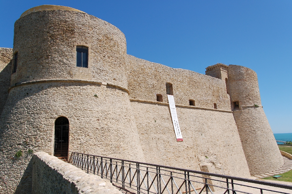 Ortona 2011